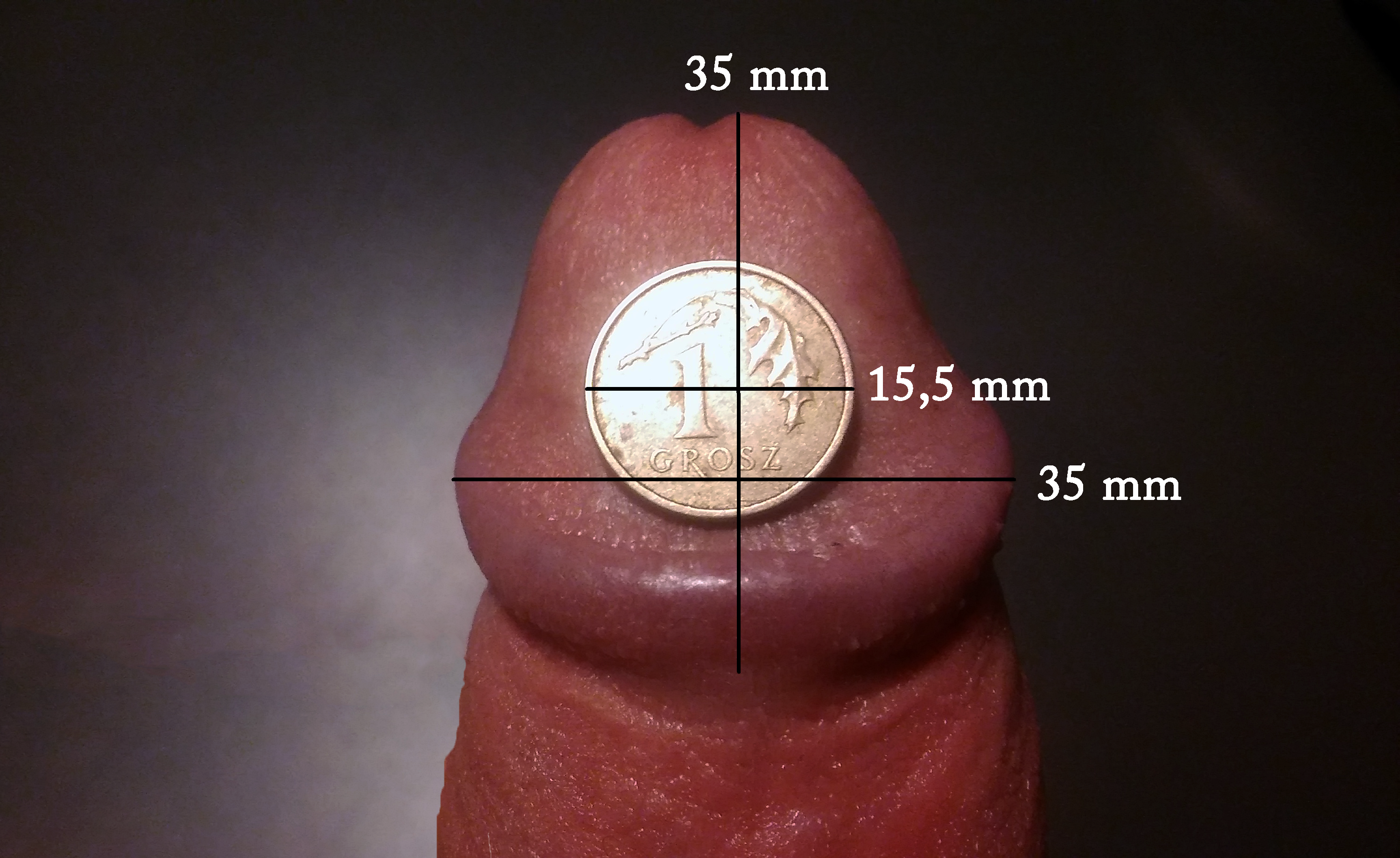 Flaccid penis glans with size measurements in comparison to 1 grosz (PLN)